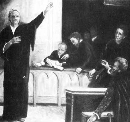 Painting by Aladár Körösfői-Kriesch: "Ferenc Dávid's speech to the Diet of Turda in 1568".